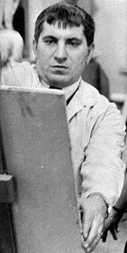 Artist Virgil Cantini instructing a student in his drawing and painting class at the University of Pittsburgh during a 1956-57 school year